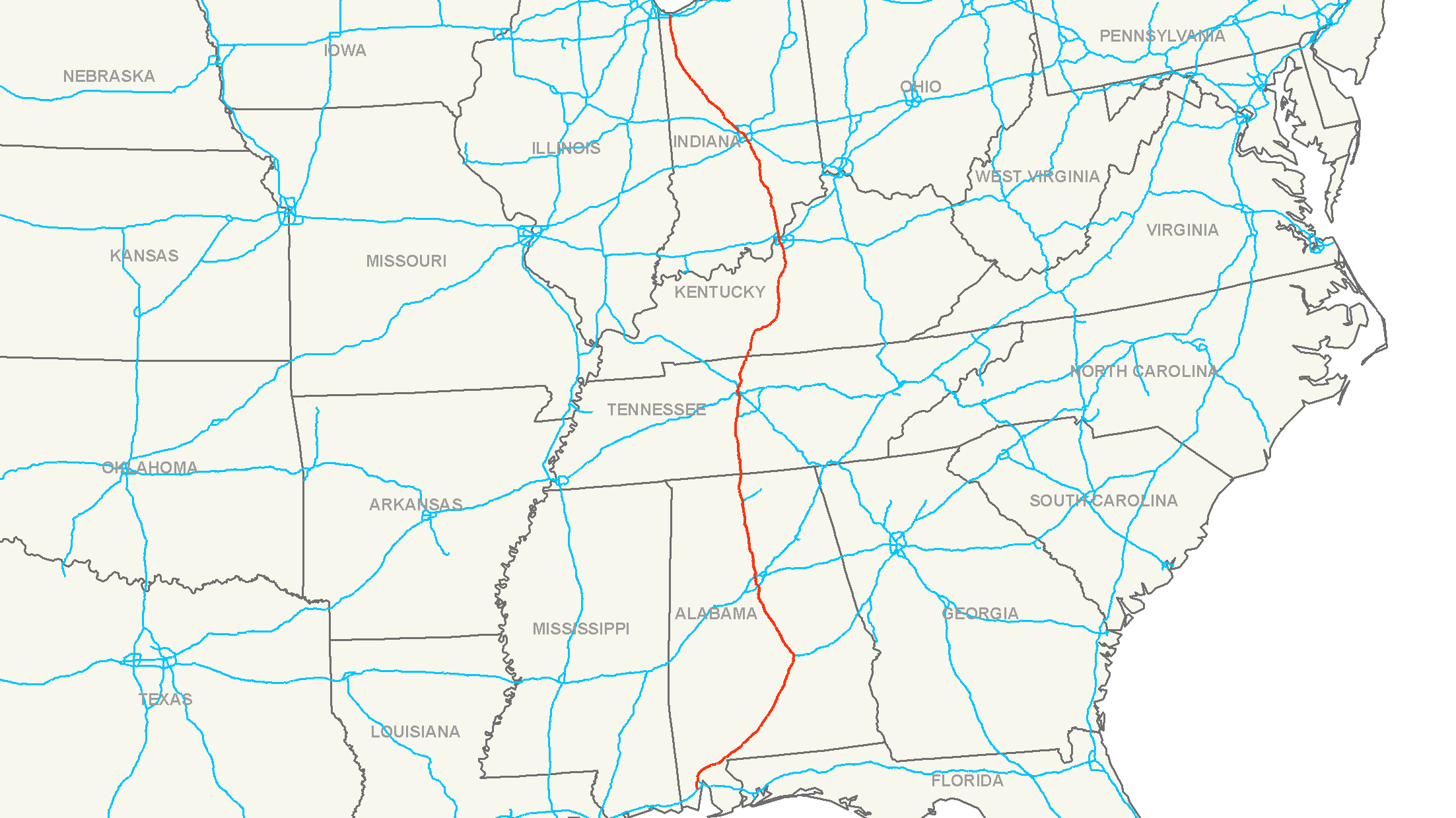 Map of Interstate 65